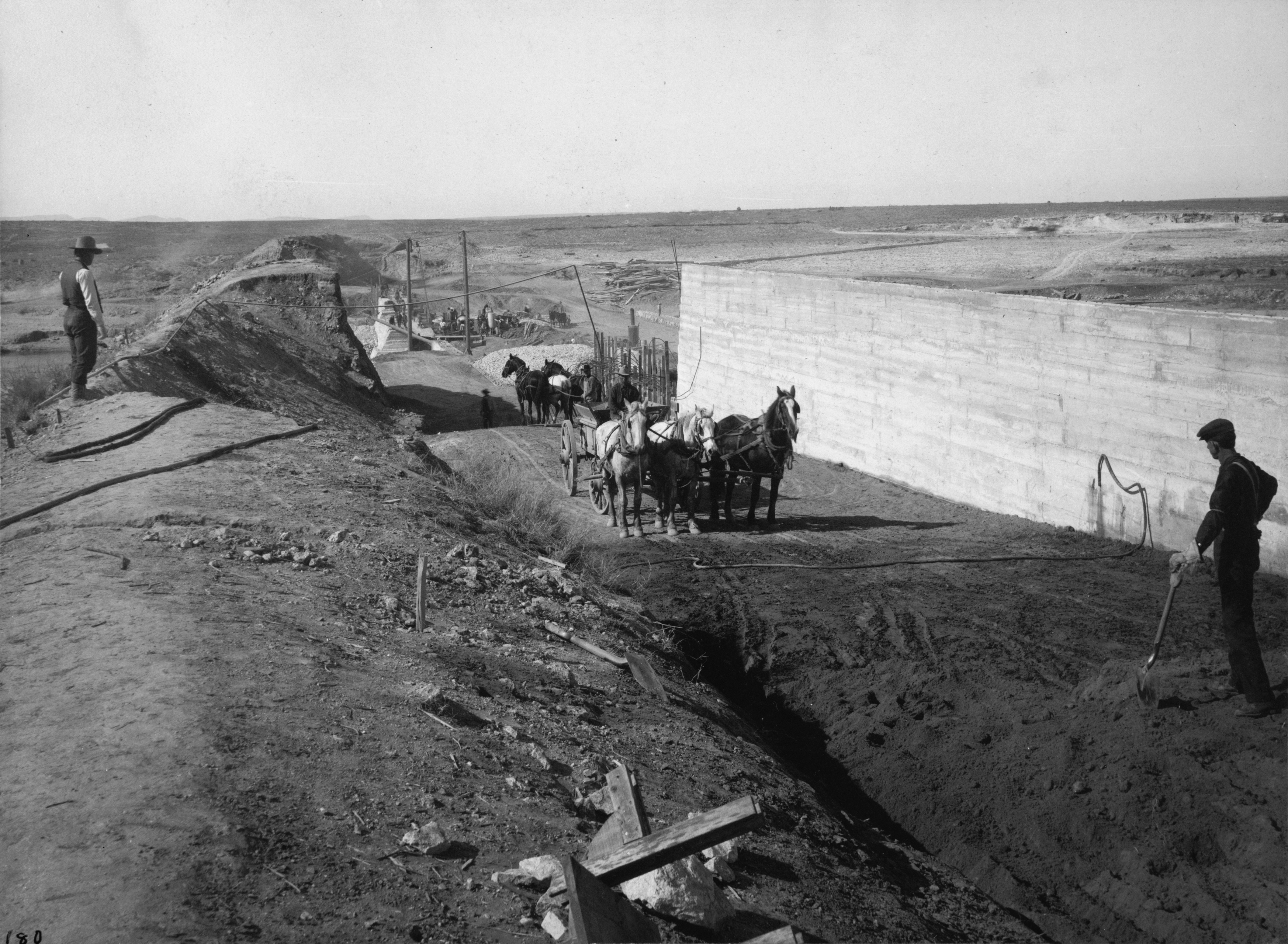 Avalon Dam, New Mexico, being reconstructed after it was washed out be a flood in October 1904